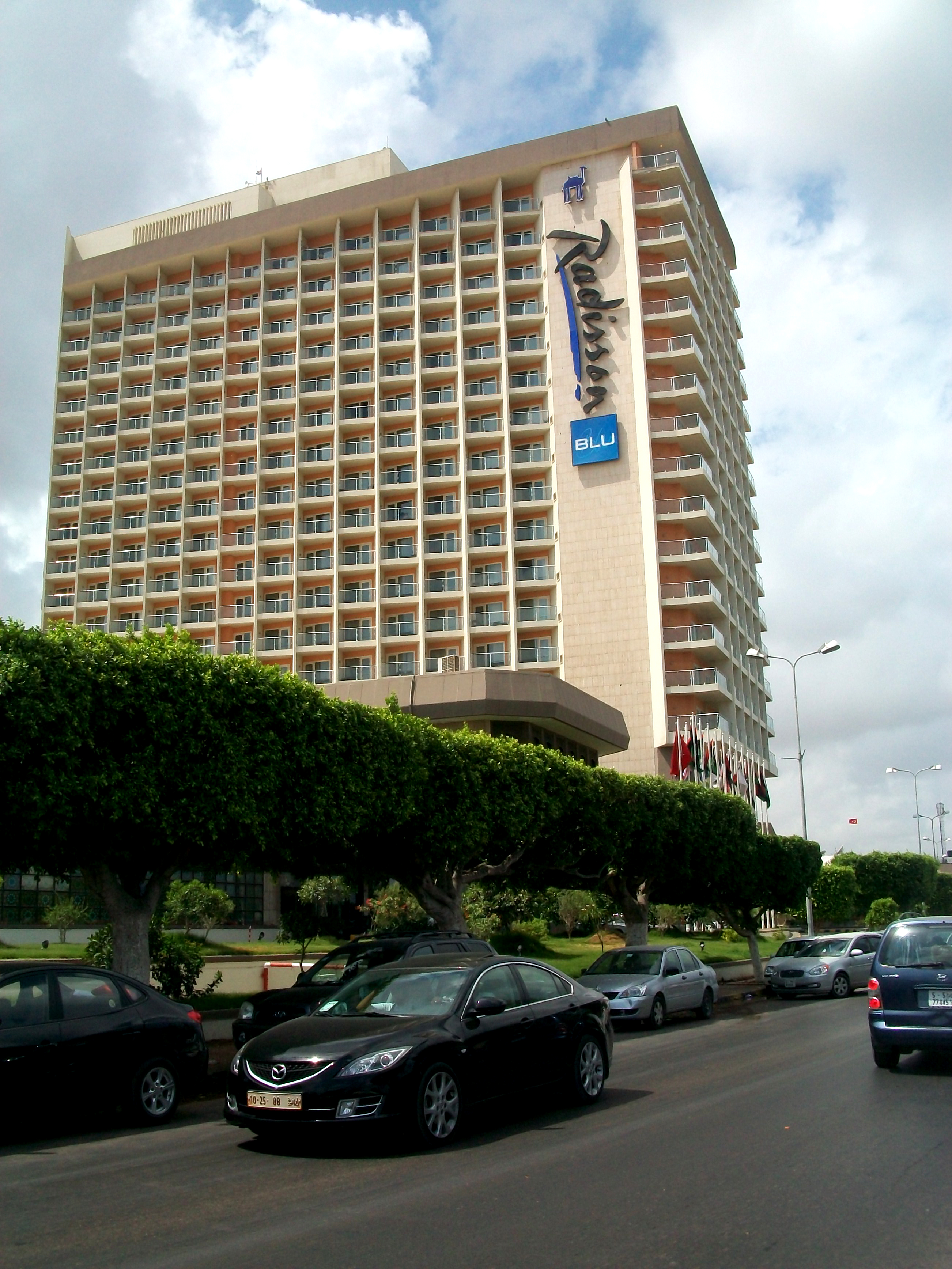 The Mehari Radisson Blu Hotel in the Libyan capital Tripoli.